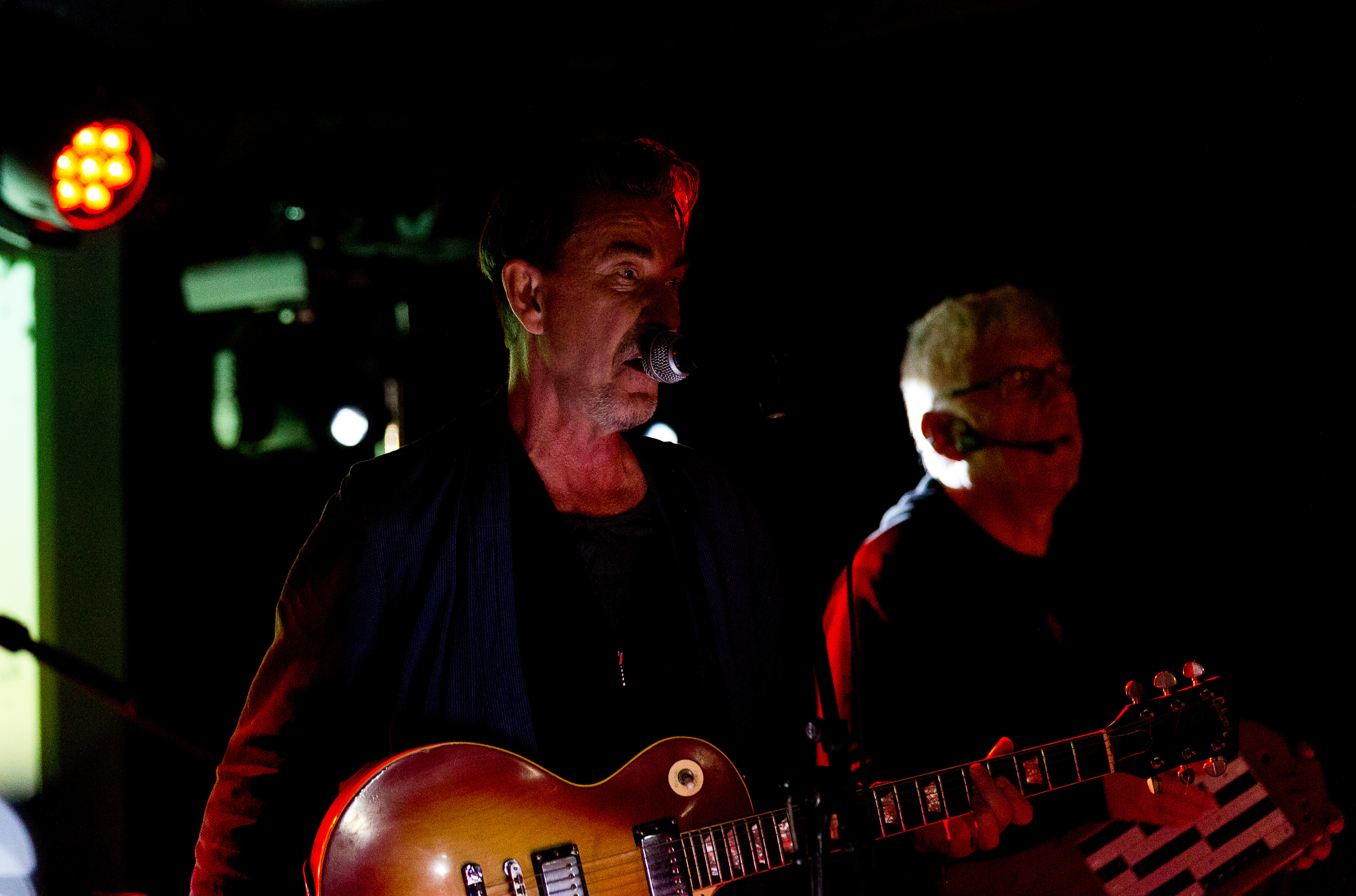 The Swedish synthpop band Twice A Man at the Nocturnal Culture Night 10 2015 in Deutzen/Germany.